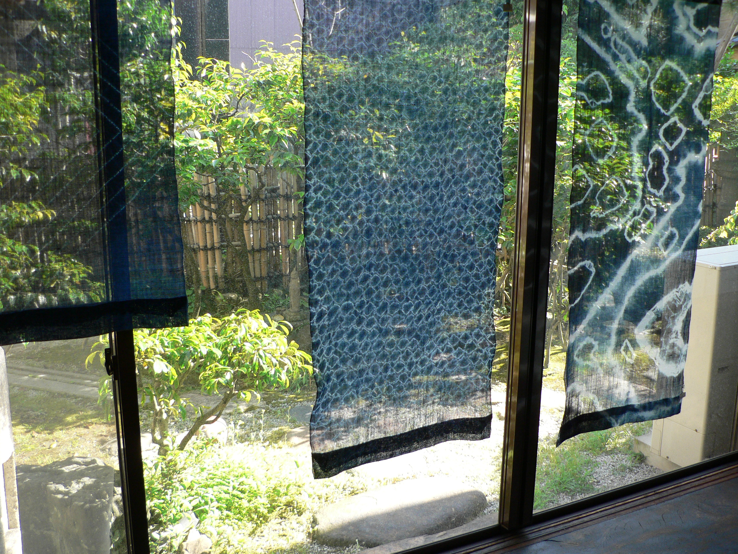 shibori fabric in japan